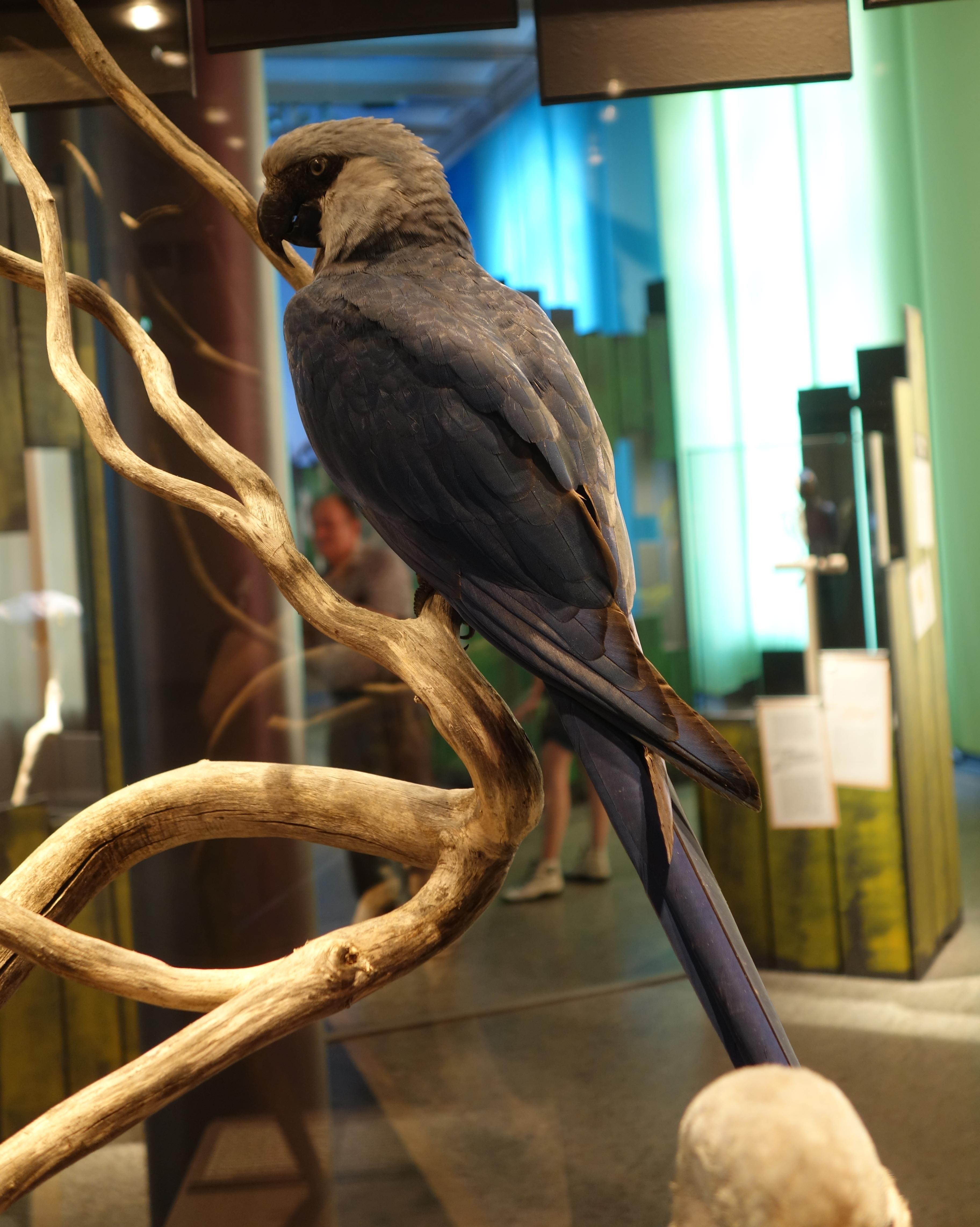 Cyanopsitta spixii, stuffed specimens on exhibit at the Museum für Naturkunde, Berlin